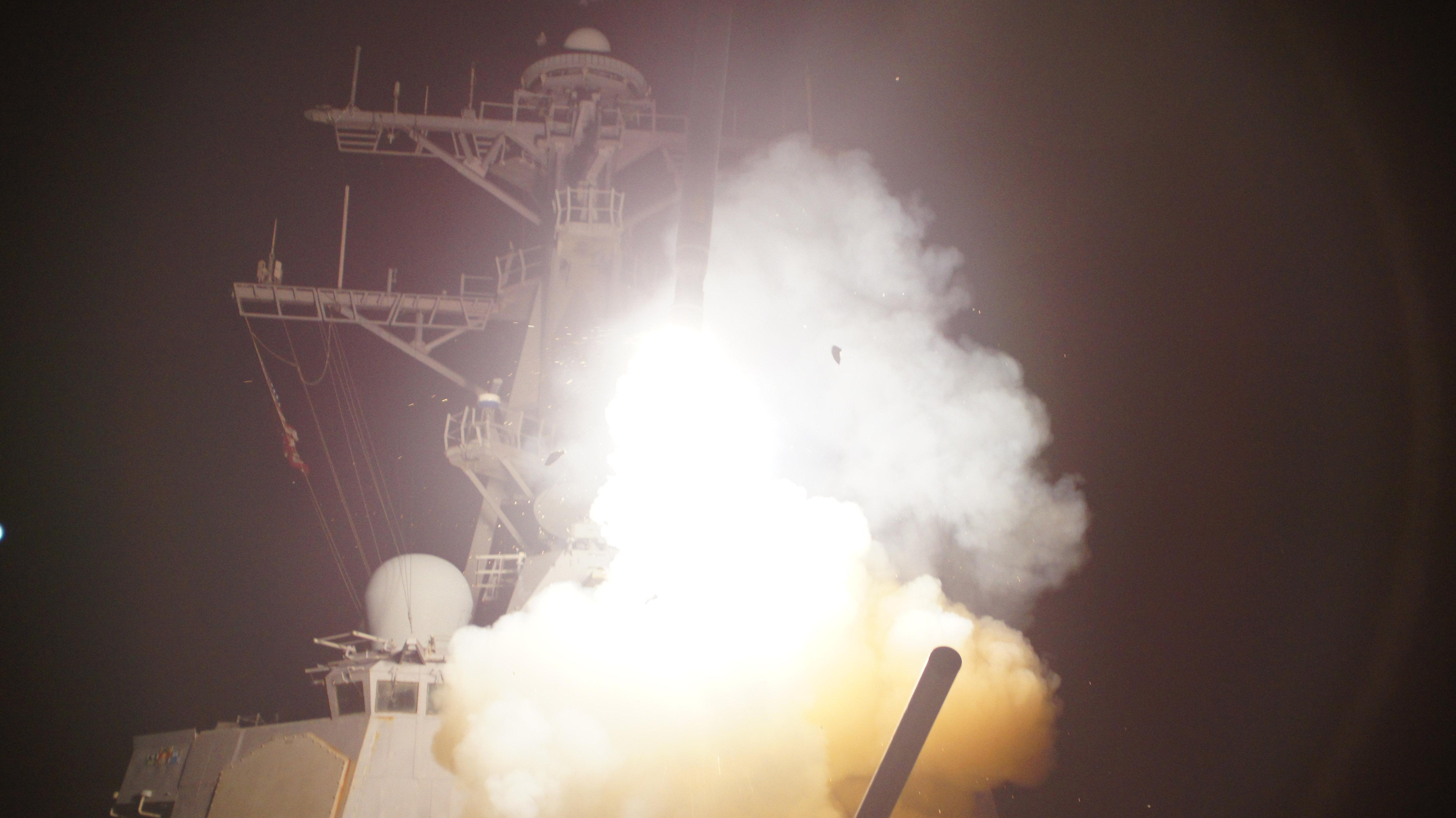 Arleigh Burke-class guided-missile destroyer USS Stout launches a Tomahawk missile in support of Operation Odyssey Dawn on March 19, 2011. This was one of approximately 110 cruise missiles fired from U.S. and British ships and submarines that targeted about 20 radar and anti-aircraft sites along Libya’s Mediterranean coast. Joint Task Force Odyssey Dawn is the U.S. Africa Command task force established to provide operational and tactical command and control of U.S. military forces supporting the international response to the unrest in Libya and enforcement of United Nations Security Council Resolution 1973. UNSCR 1973 authorizes “all necessary measures” to protect civilians in Libya under threat of attack by Qadhafi regime forces. JTF Odyssey Dawn is commanded by U.S. Navy Admiral Samuel J. Locklear, III.